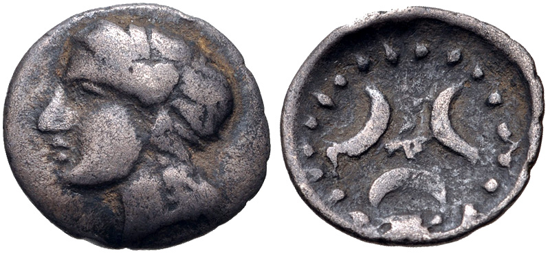 CRETE, Kydonia. Circa 320-270 BC. AR Obol (12mm, 0.90 g, 7h). Head of maenad right / Three crescents around central K.